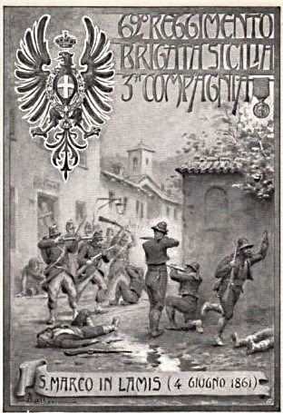 postal card of "62th reggimento di Fanteria" to remember fight against brigants in San Marco Lamis 4 june 1861